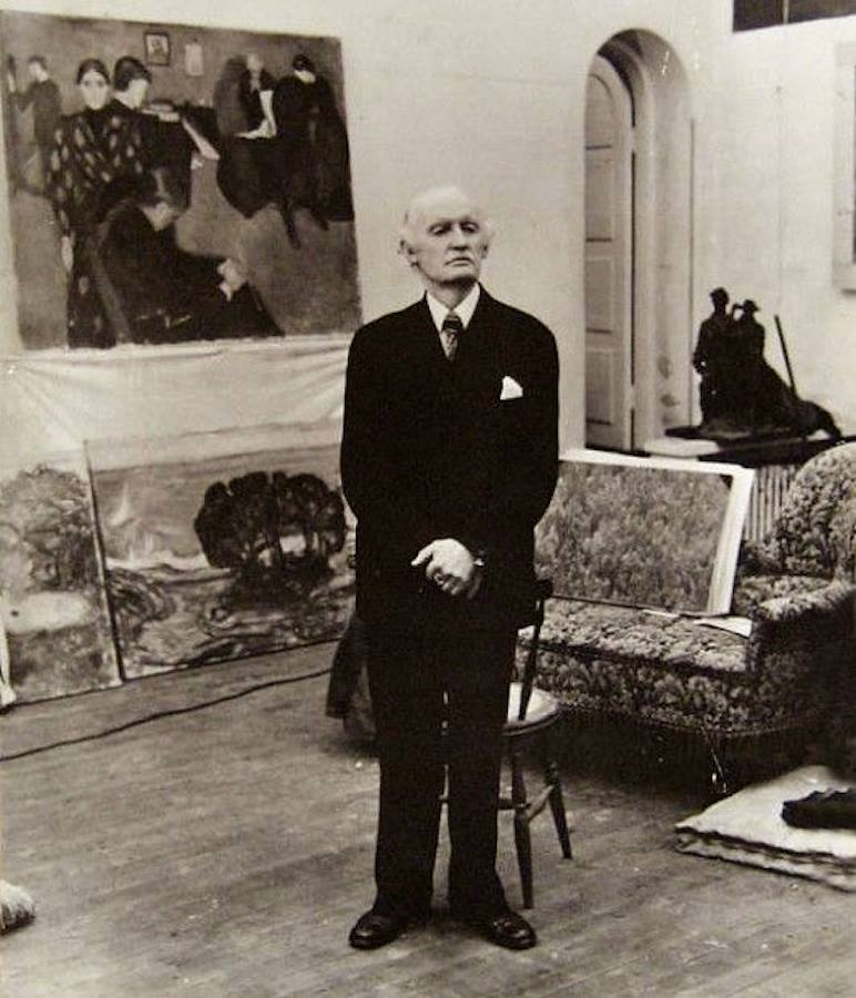 Edvard Munch In His Studio